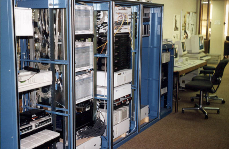 Nando equipment rack